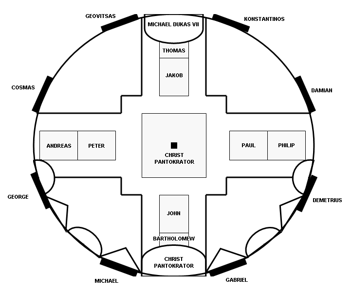 Scketch of the organisation of icons from top view.